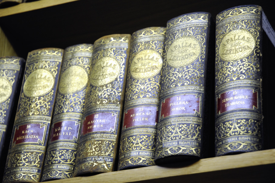 Volumes from the A Pallas Nagy Lexicona, the first genuine Hungarian encyclopedia (late 19th century)